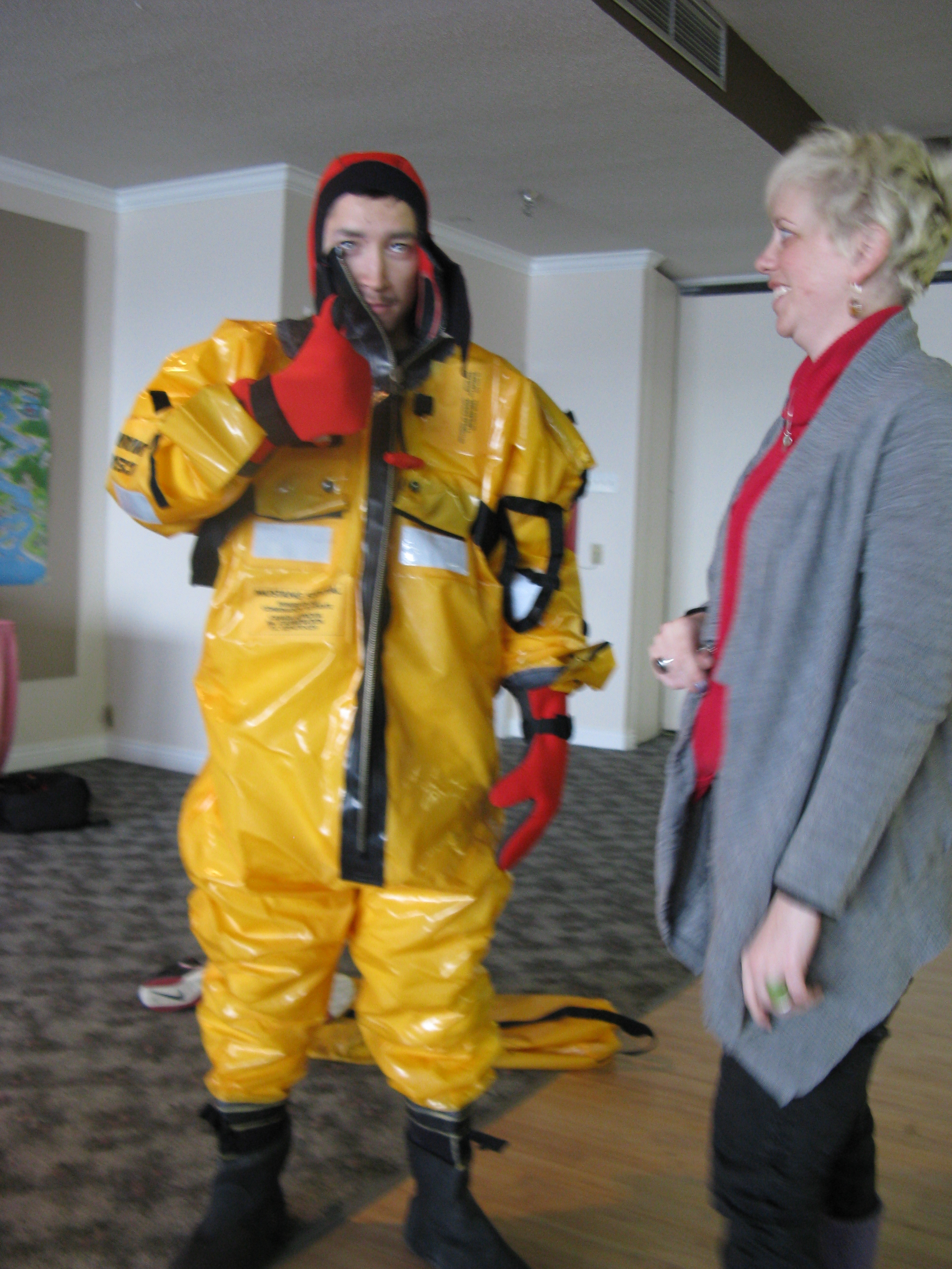 Survival suit overview & practice.